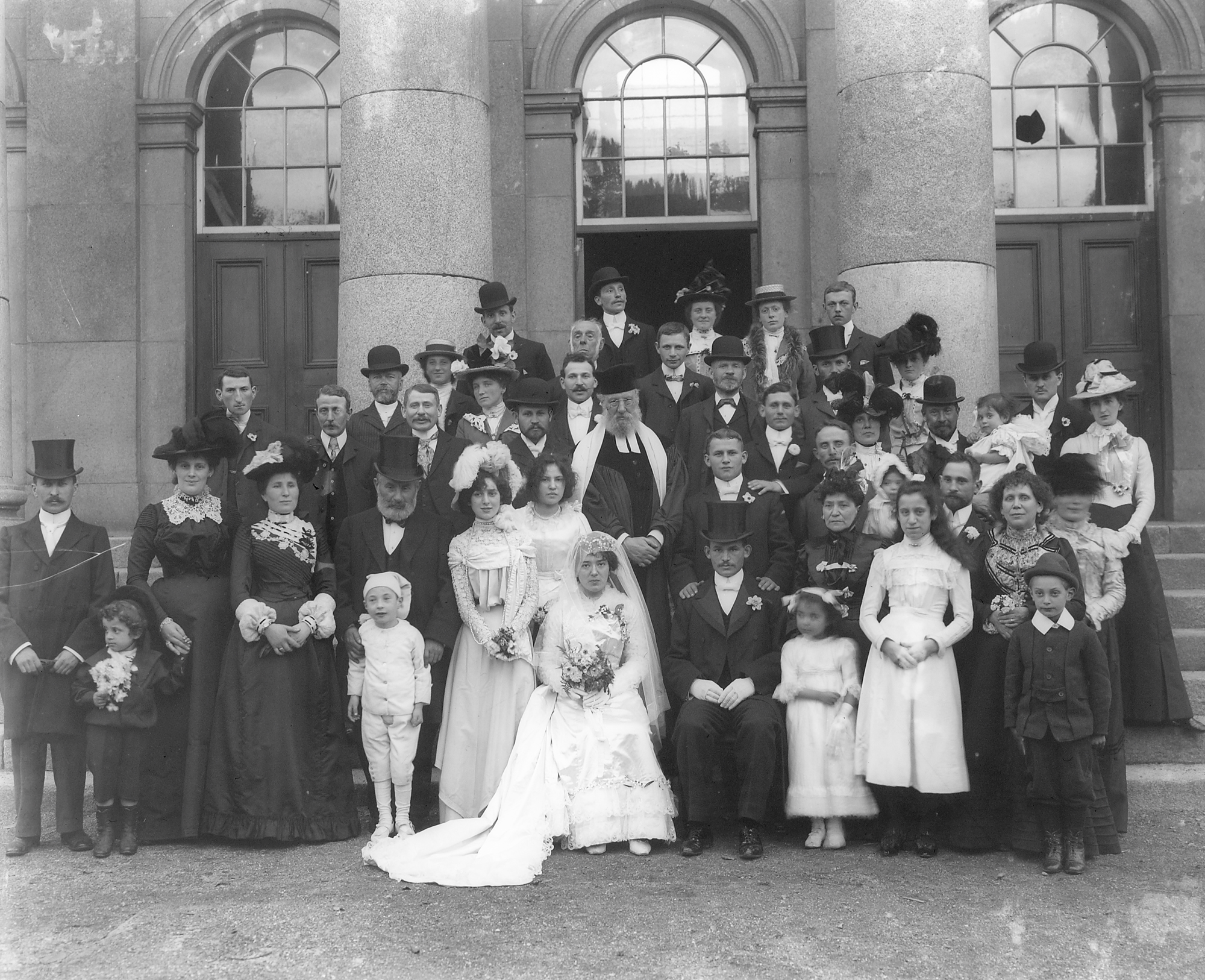 Really delighted with this one, as we have so little evidence of Jewish life in Ireland in our photographs! It is the 1901 wedding of Miss Esther Levin of John Street in Waterford to Mr Myer Stein of Dublin. Photographer: Poole Photographic Studios, Waterford Date: Between Monday 2nd and Friday 6th September 1901 NLI Ref.: POOLEIMP 880A